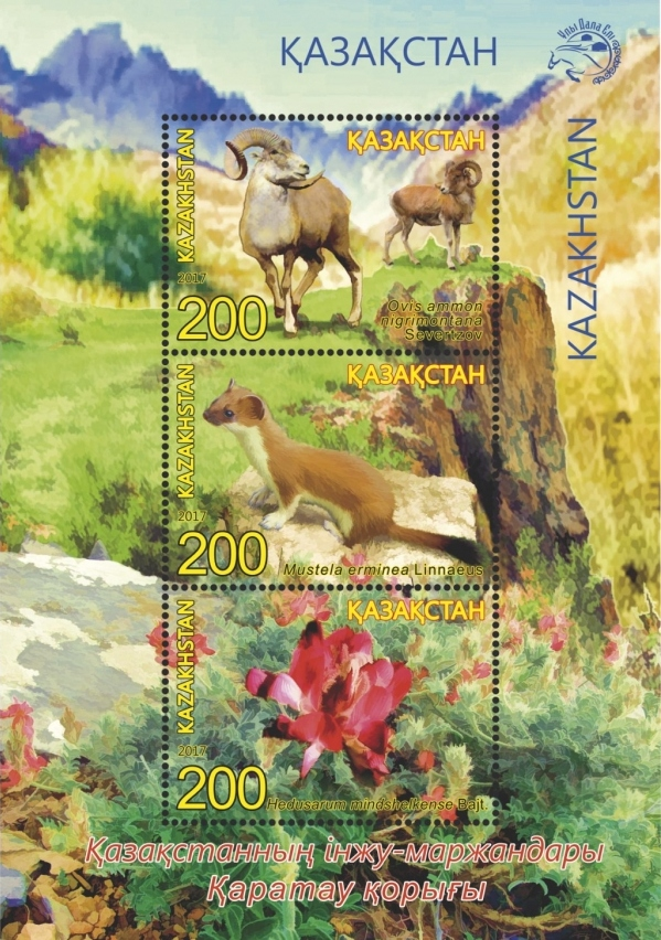 1067-1069. Pearls of Kazakhstan. Karatau state nature reserve.